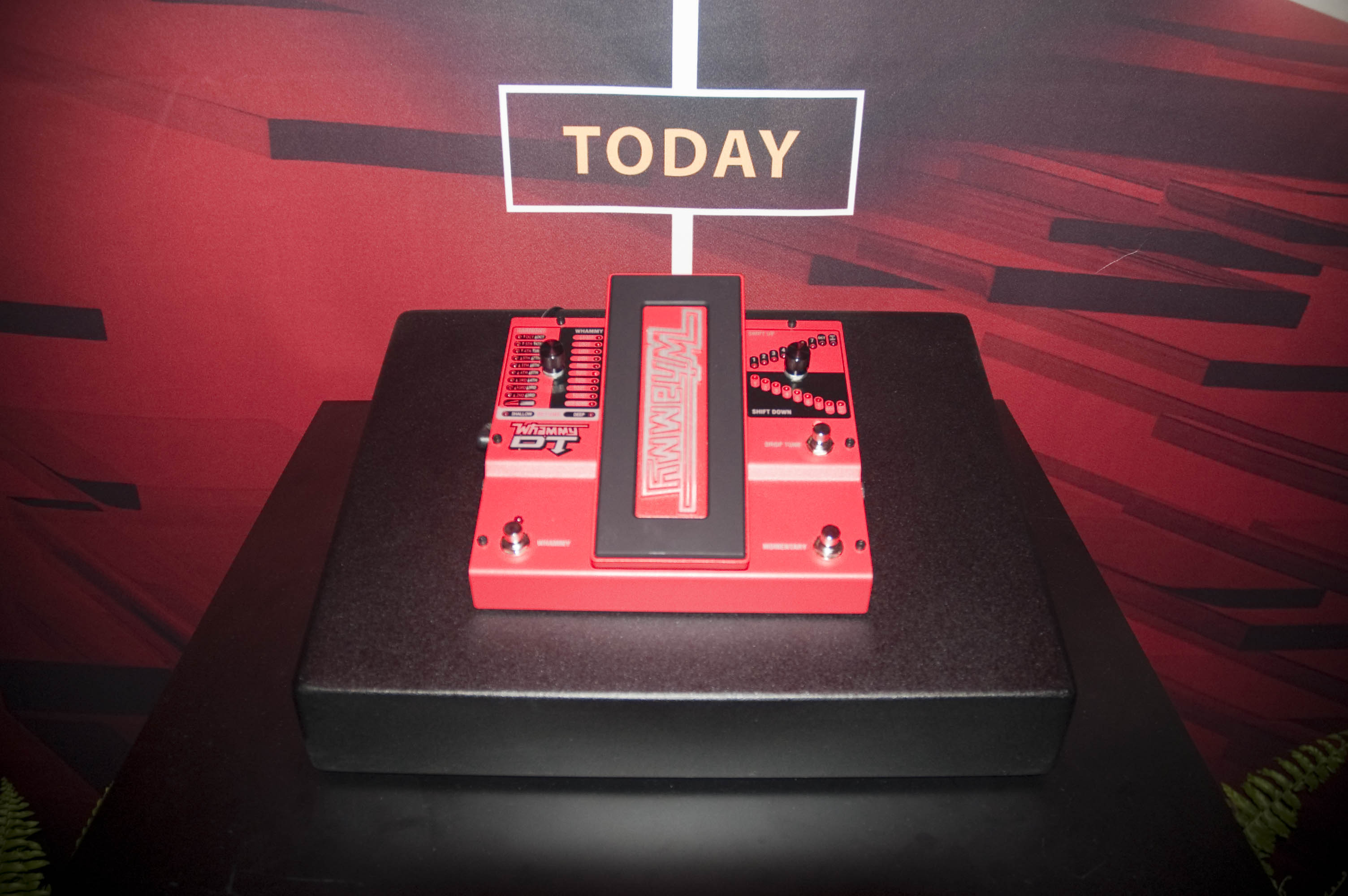 The updated Digitech Whammy pedal.